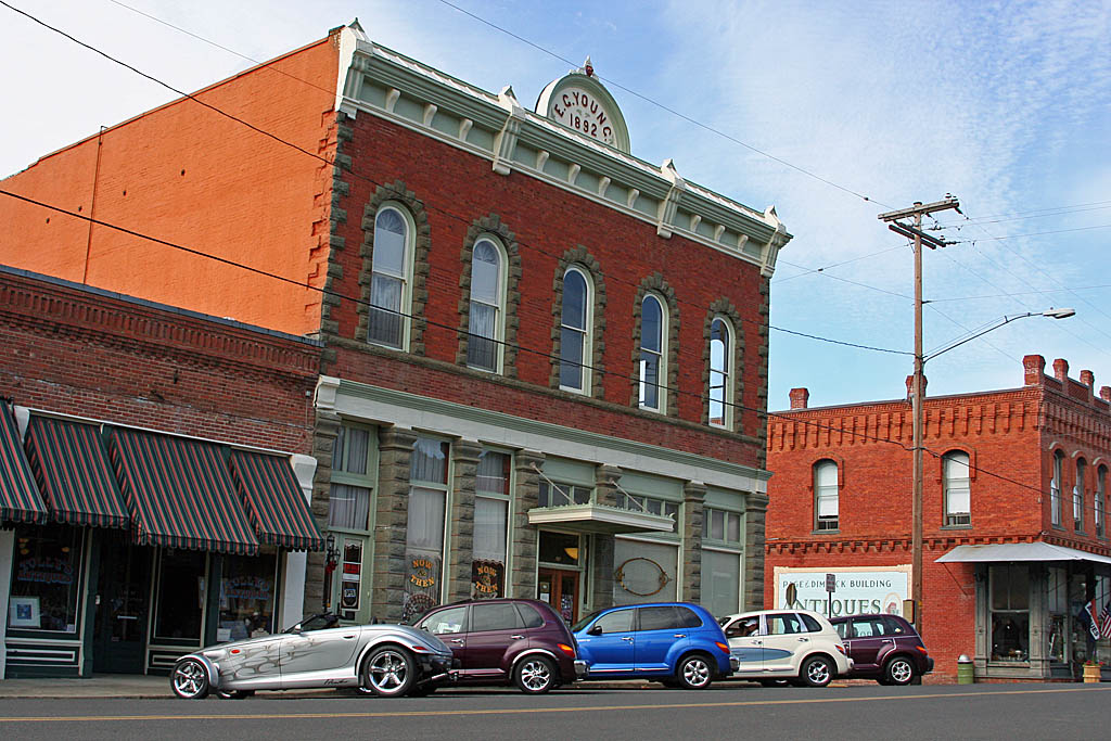 Our PT Cruiser club in Oakland, OR. The car on the left is a Prowler, Chryslers limited production retro styled roadster.